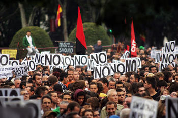 25s Jornada de lucha.